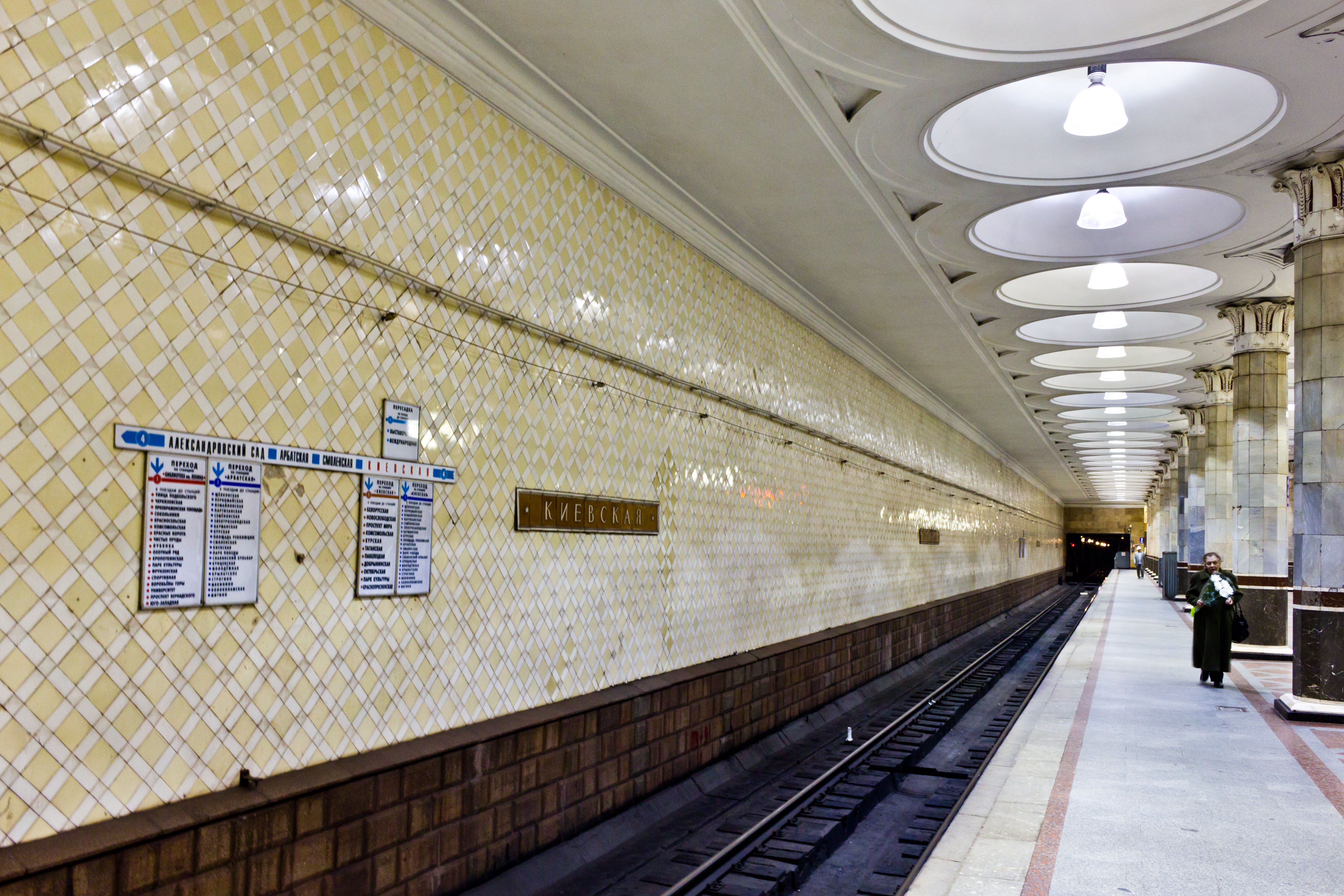 Kievskaya (Filyovskaya Line) Moscow Metro station.